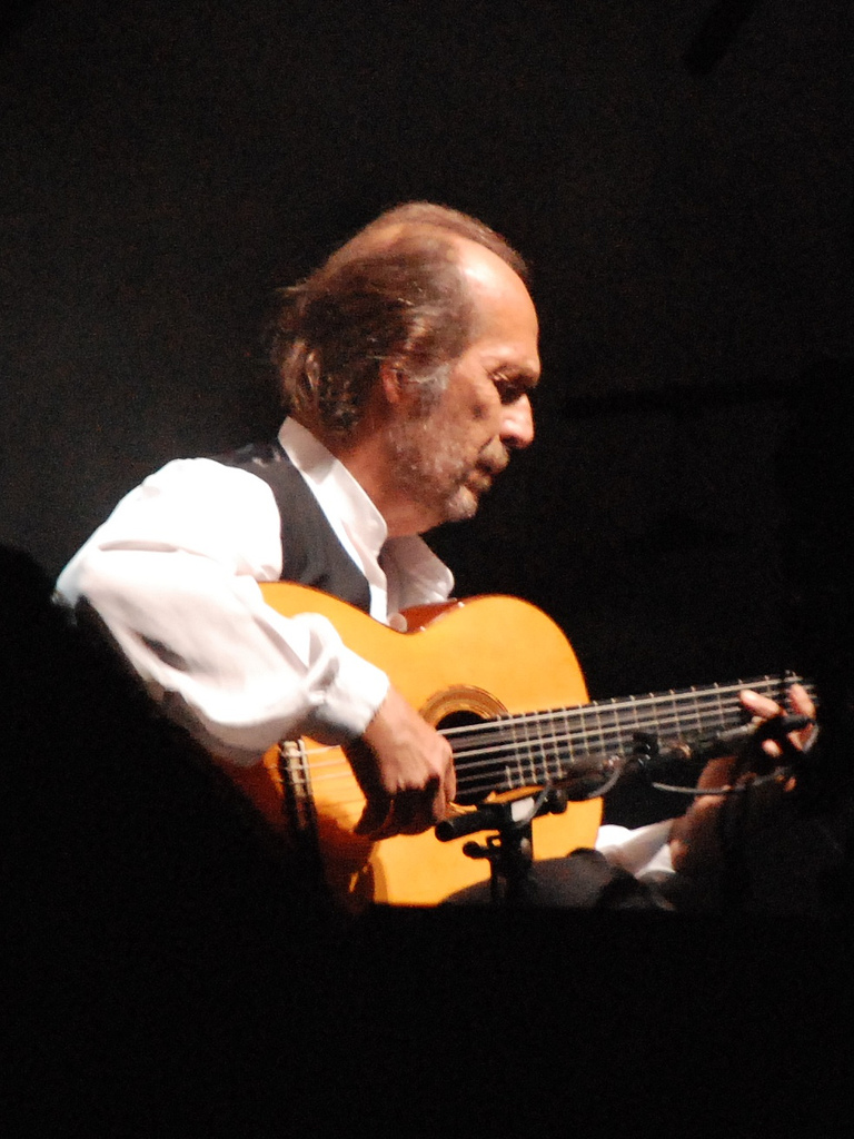 Paco de Lucía at Gibralfaro in Málaga on 22 September 2007.